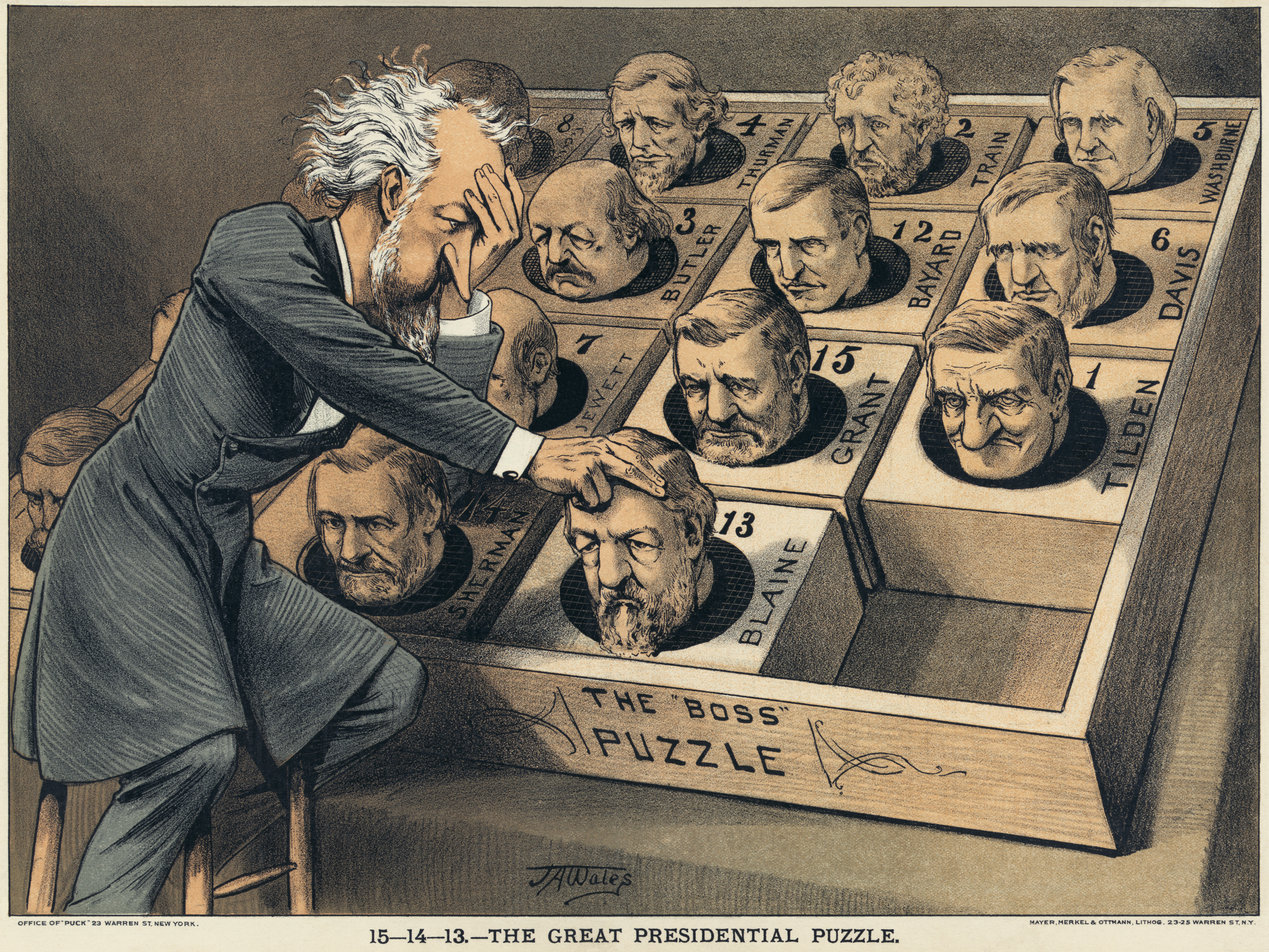 "The Great Presidential Puzzle": "Illustration shows Senator Roscoe Conkling, leader of the Stalwarts group of the Republican Party, playing a puzzle game. All blocks in the puzzle are the heads of the potential Republican presidential candidates, among them Grant, Sherman, Tilden, and Blaine. Conkling rests his head on one hand and the other on Blaine's "head" as though ready to move it to the empty space in the box." Chromolithograph. Parodies the famous 14-15 puzzle (the Rubik's cube of the 1880s).